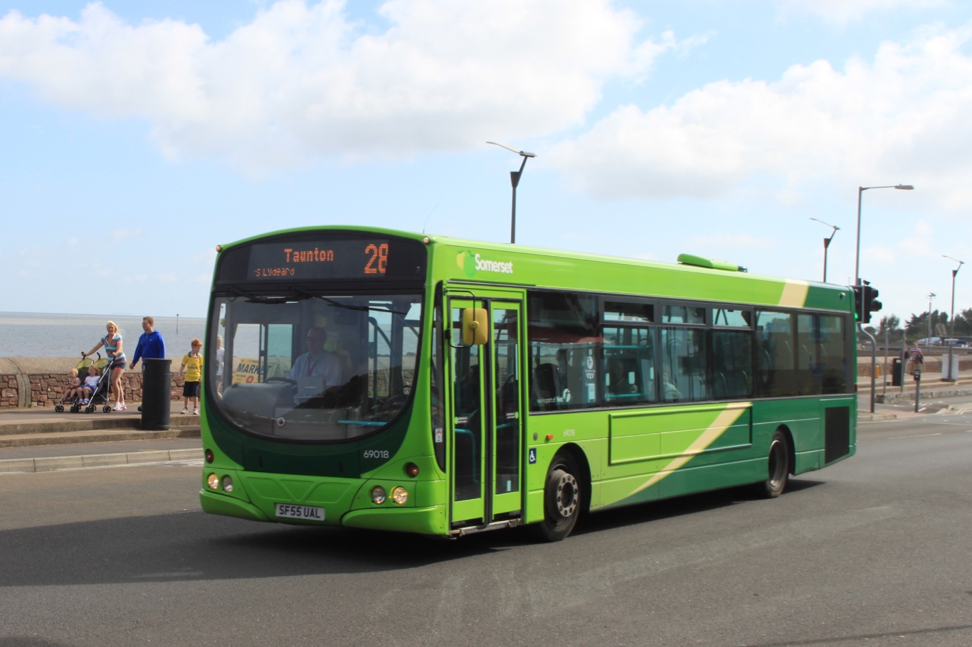 'The Buses of Somerset' 69018 (a Wright Eclipse Urban registered SF55UAL) heads along the seafront in Minehead at the start of a journey on route 28 to Taunton.